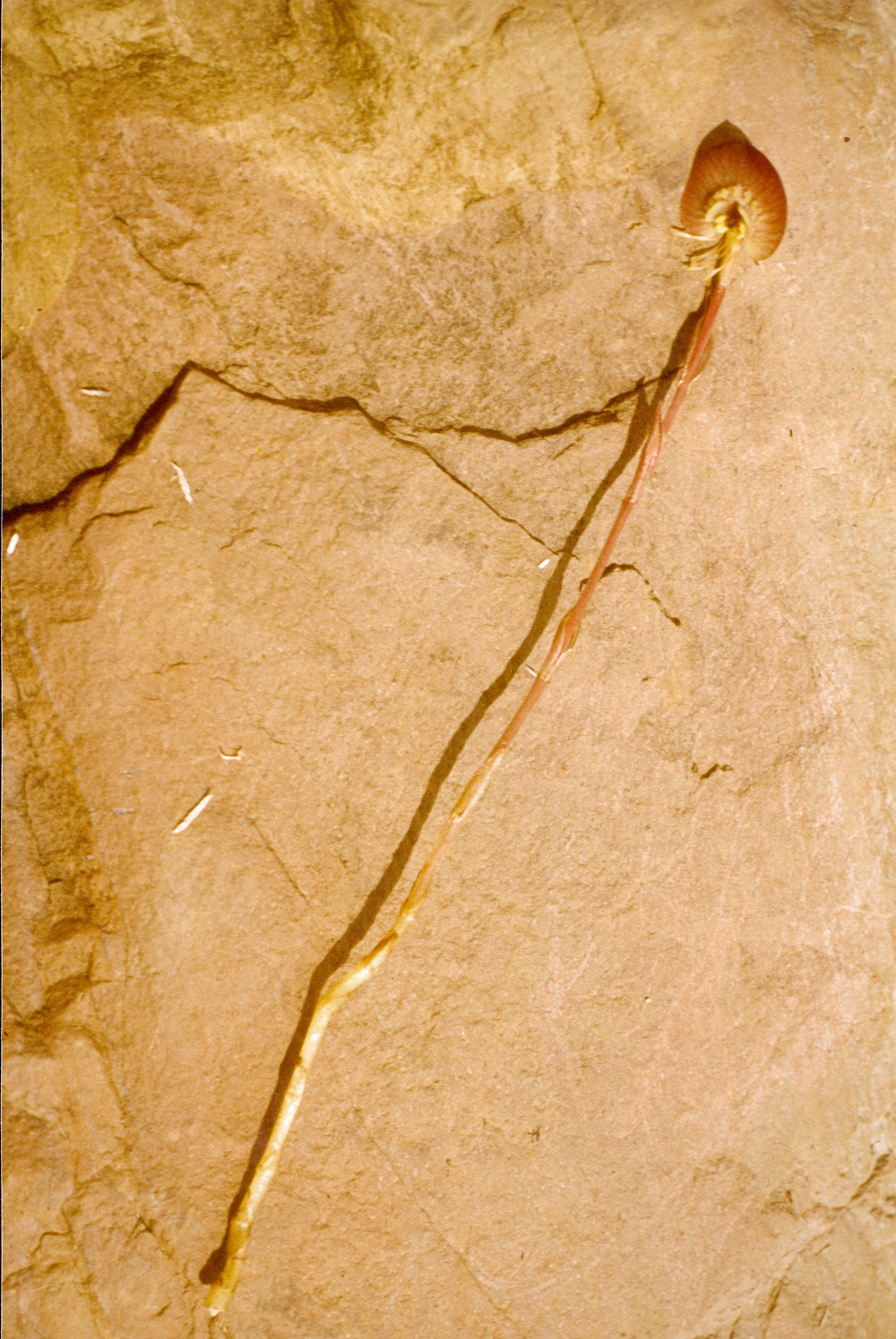 Corsia spec. II (not fully determined). Papua New Guinea, Western Highlands, Minj Subdistrict, Mt. Hagen area. Foothills near Jimmi [Jimi] divide, above Jimi Valley Road to Jimi Divide, mid-montane secondary forest, ca. 1.730 m